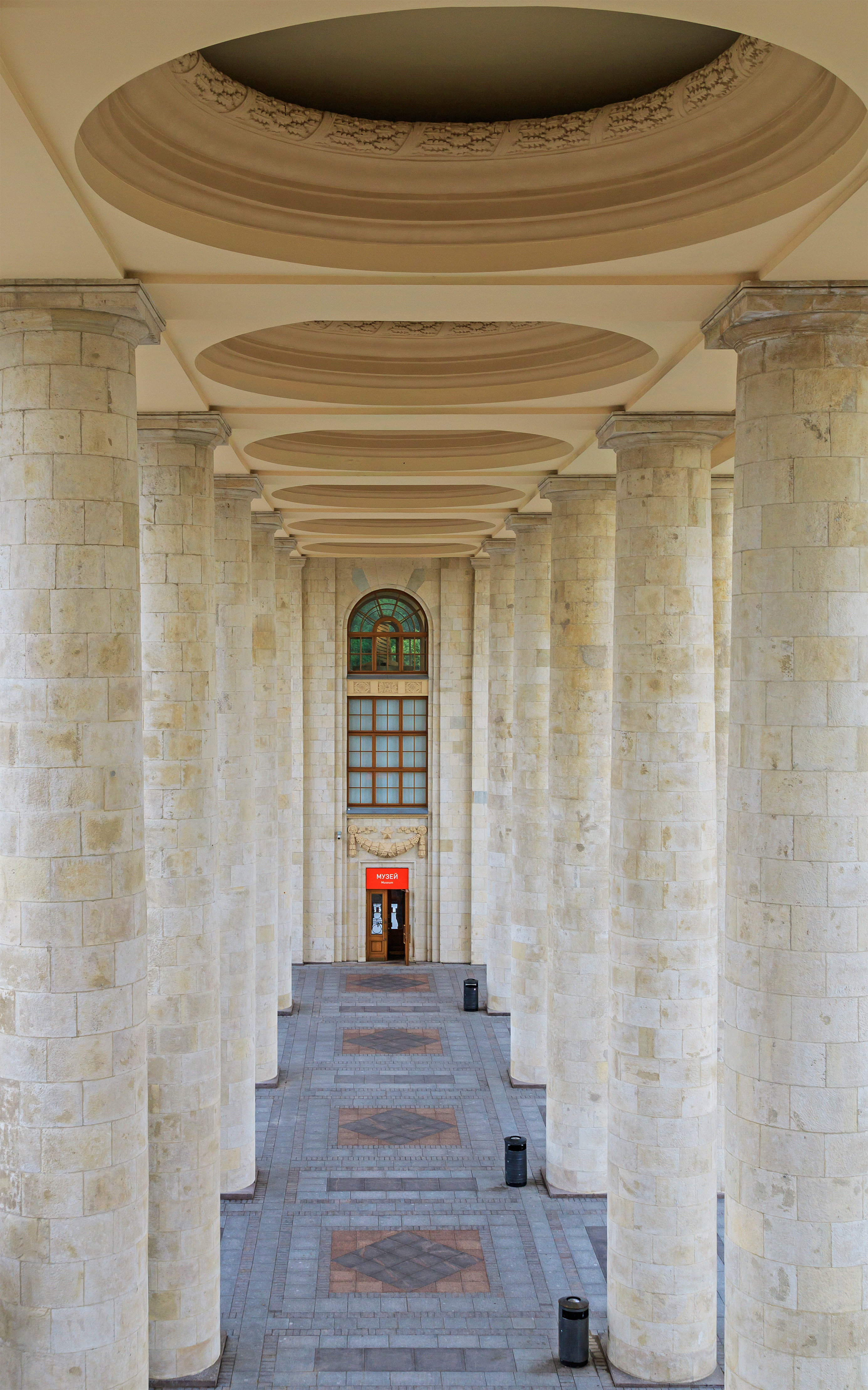 Colonnade of the Gorky Park main portal. Moscow, Russia.